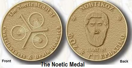 The Noetic Medal is an award for lifetime achievement in Consciousness & Brain Research relating to any aspect of Cartesian Dualism. The front image contains a Least Cosmological Unit (LCU) part of the gating mechanism allowing the anthropic principle to enter living systems. The obverse an image of Plato with Greek wording.